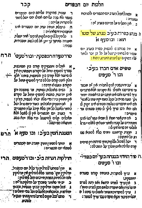 In the original printing of the Shulchan Aruch, Orach Chaim, ch.605, it said that the custom of Kapparot is a nonsensical custom that should be abolished. Future printings have censored and removed the reference to "nonsensical custom".